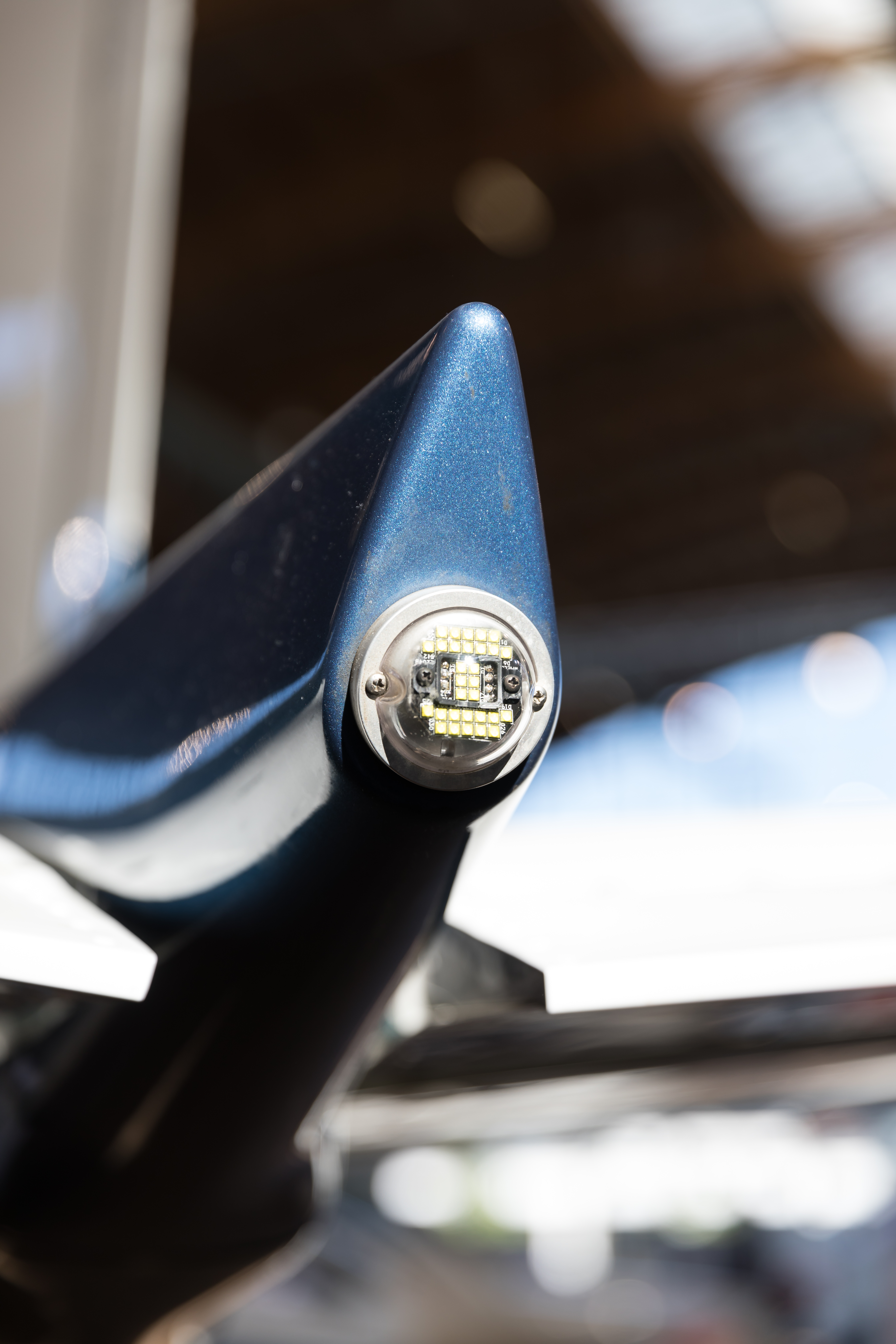 AERO Friedrichshafen 2018